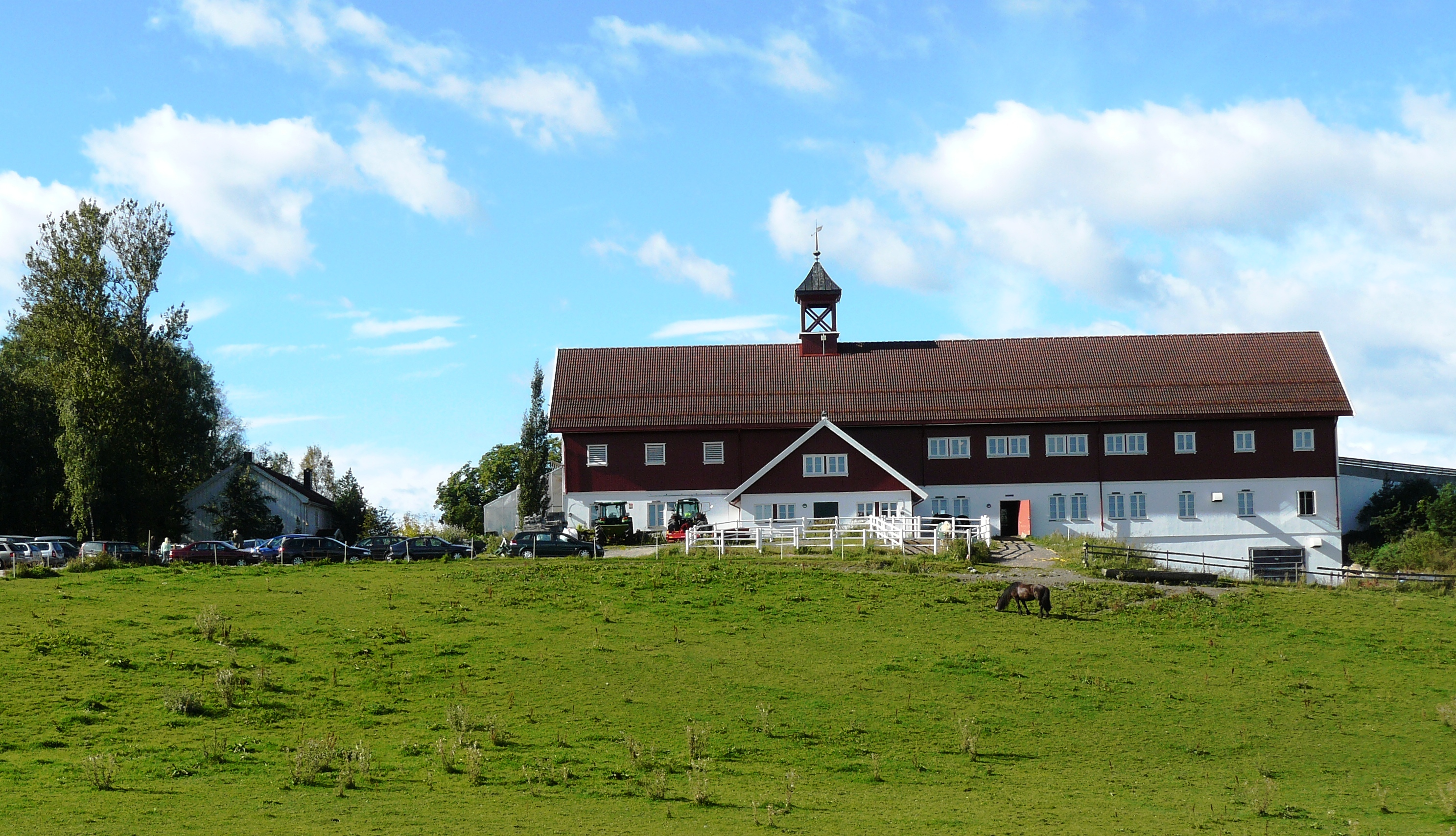 Nordre Lindeberg gård, open farm in Oslo, Norway